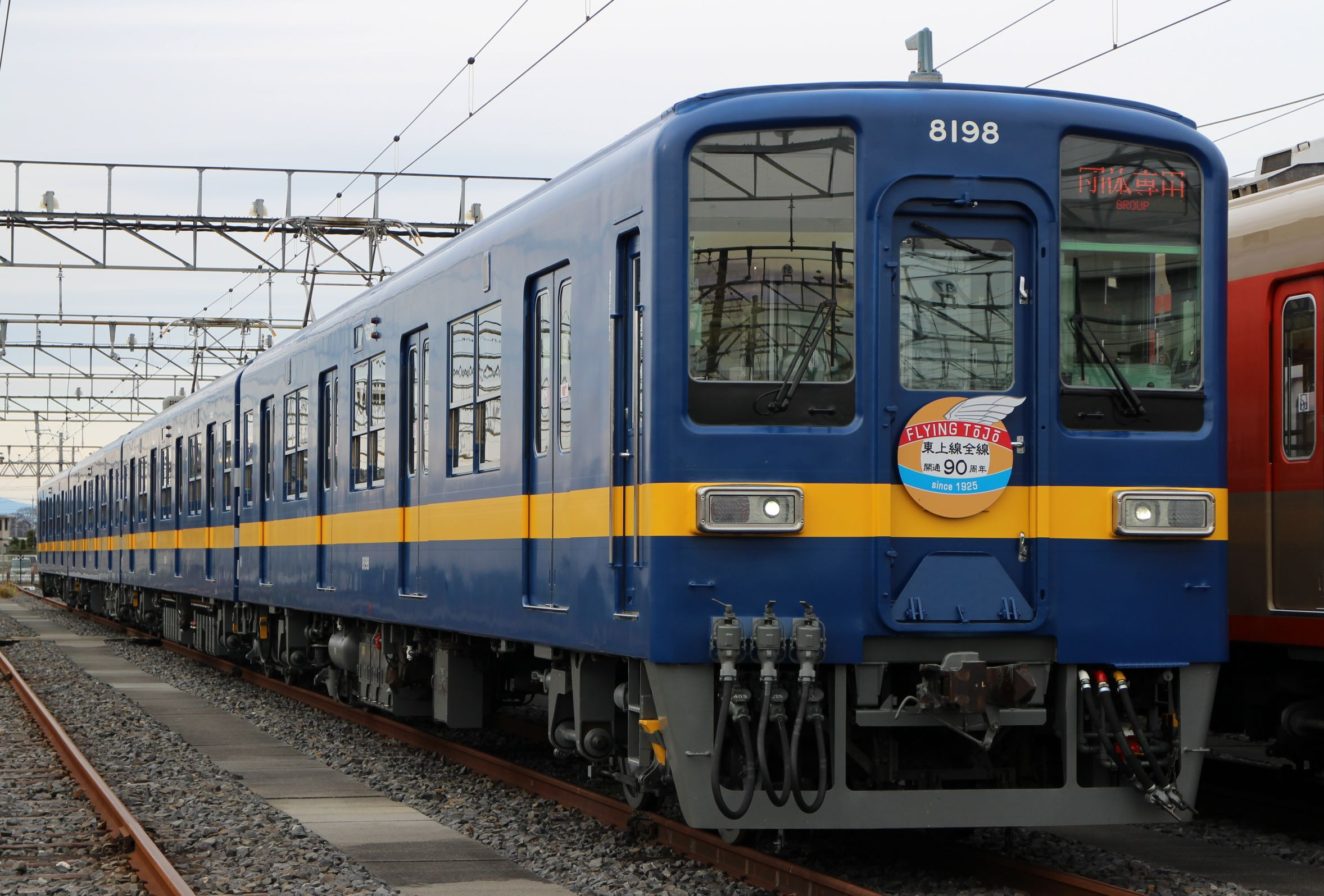 Tobu 8000 series EMU 4-car set 8198 in special "Flying Tojo" livery at Minami-Kurihashi Depot open day